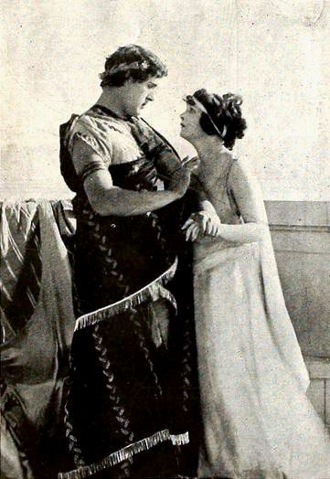 Still from the American film Deliverance (1919) for the "In the Land of Romance" act, listed in the still's caption in the magazine as being Herbert Heyes (as "the Great Lover") and Ann Mason (as Keller), on page 20 of the July 1919 Film Fun. The Internet Movie Database (IMBD) as of June 2014 does not list Herbert Heyes as being in the film. However, lists Herbert Hayes as portraying "Ulysses" in the film.